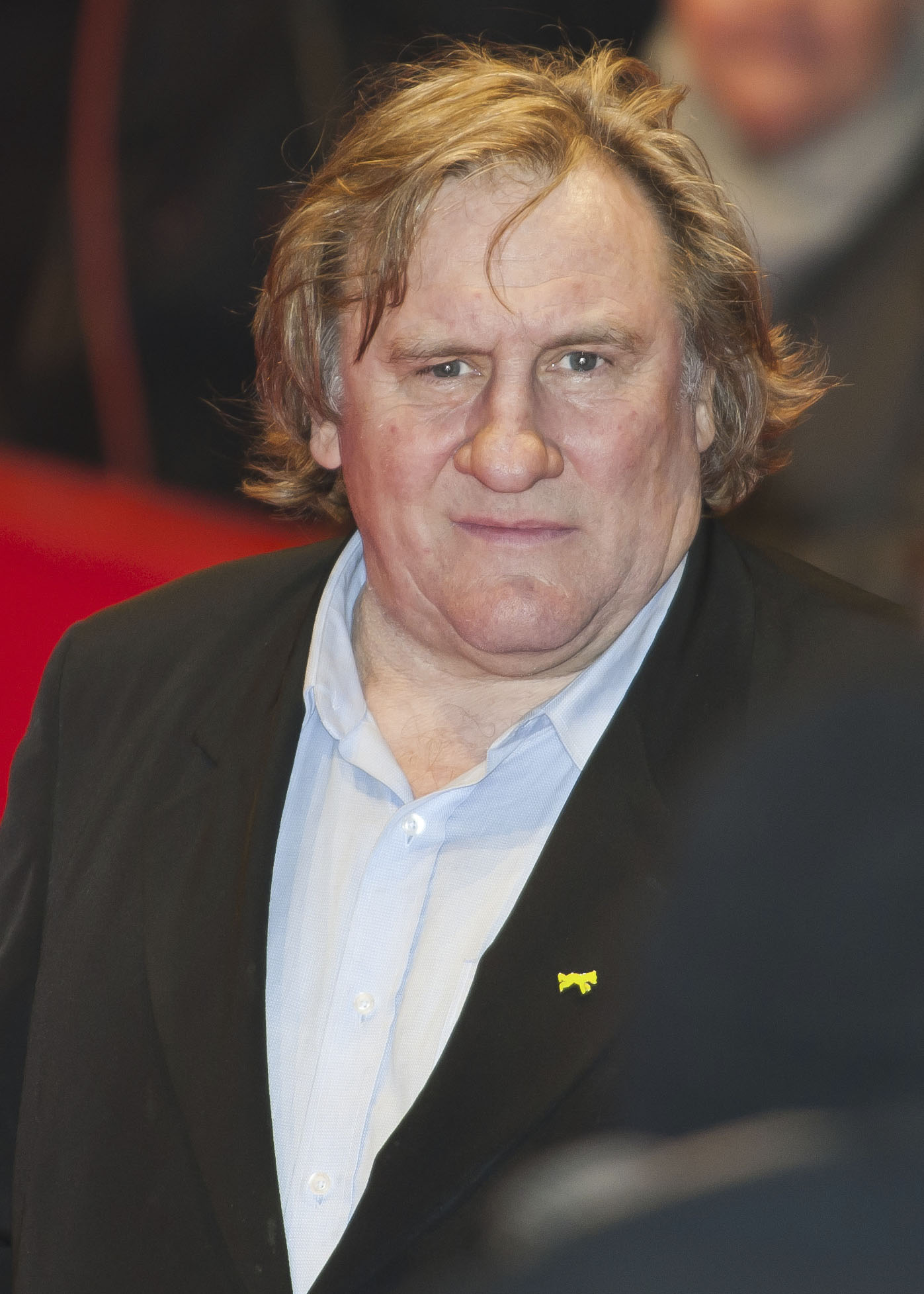 French actor Gérard Depardieu at the premiere of "MAMMUTH" at the Berlinale Palast